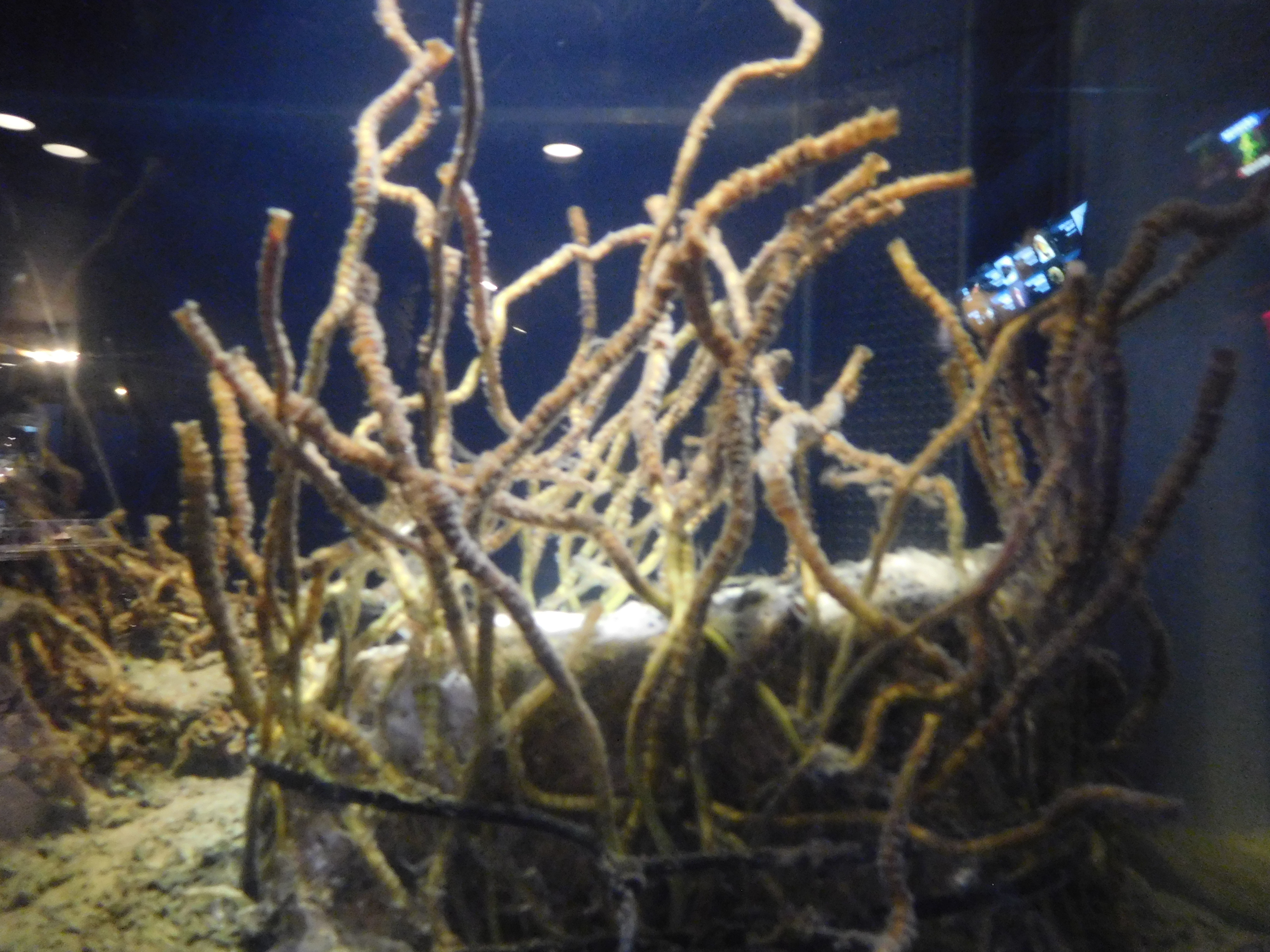 Satsuma Tubeworm or Lamellibrachia satsuma which is bred in Enoshima Aquarium.